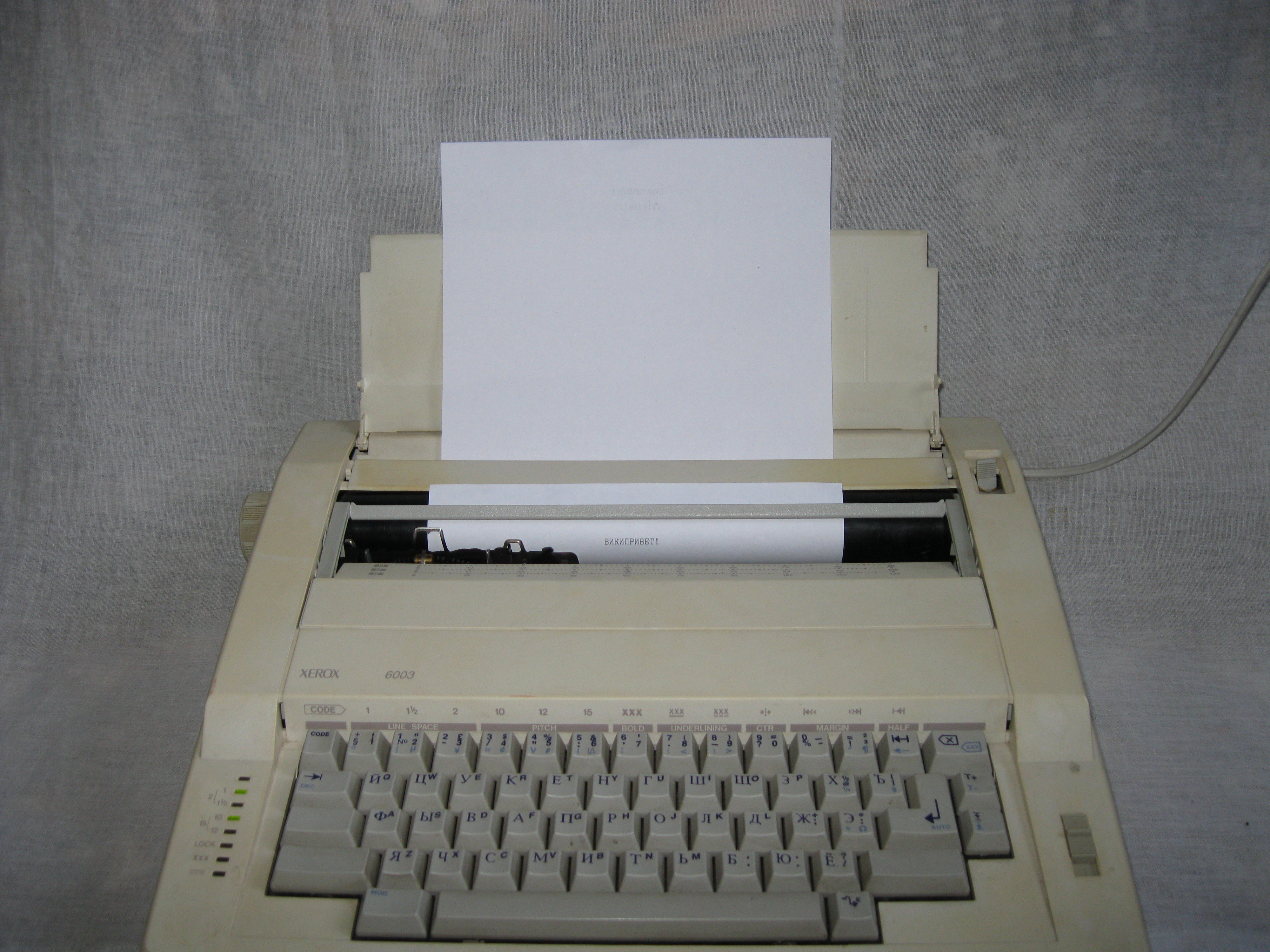 Xerox 6003 electronic typewriter.